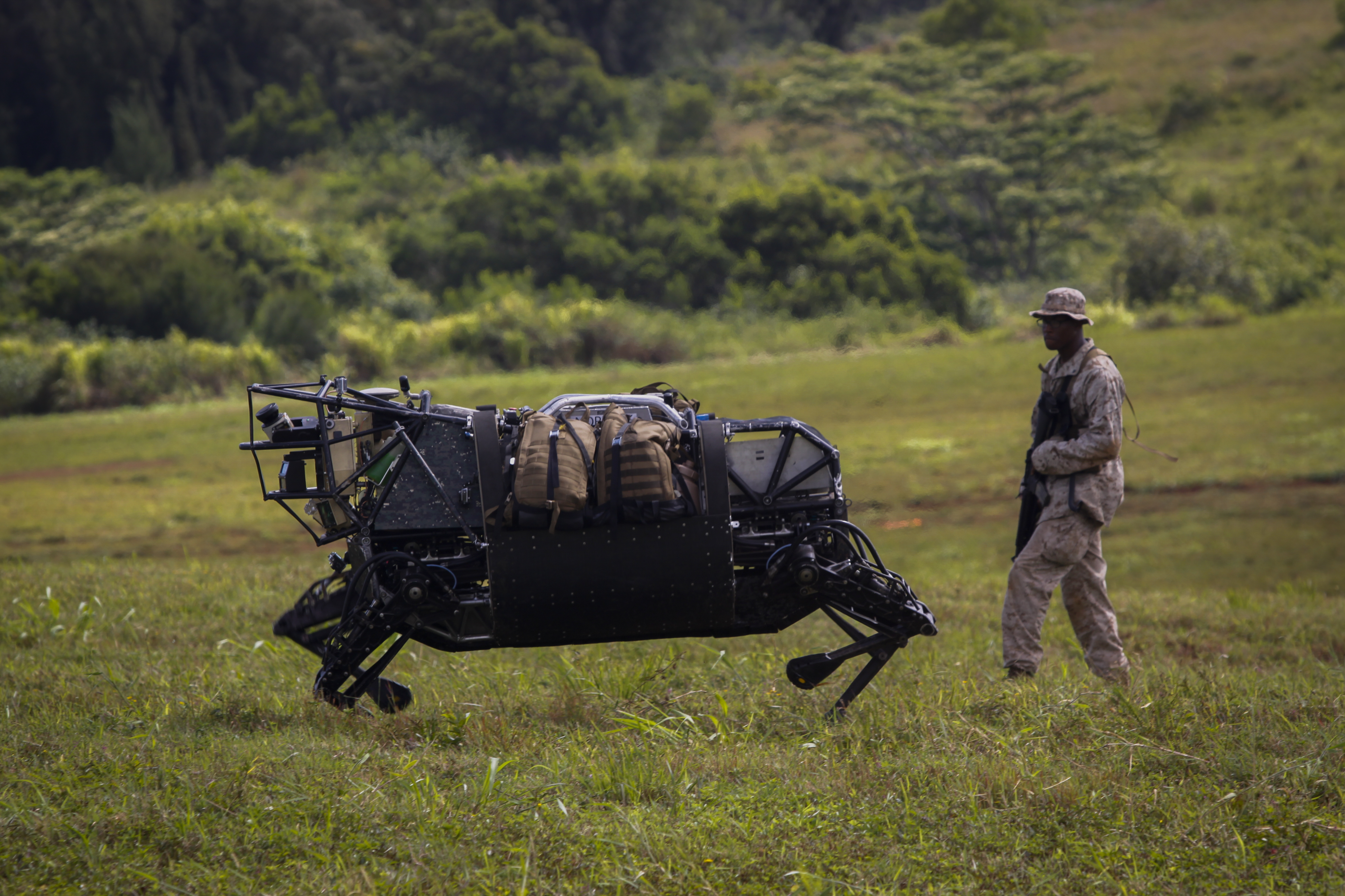 The Legged Squad Support System (LS3) walks around the Kahuku Training Area July 11, 2014 during the Rim of the Pacific 2014 exercise. The LS3 is experimental technology being tested by the Marine Corps Warfighting Lab during Rim of the Pacific 2014. It is programmed to follow an operator through terrain, carrying heavy loads of gear or supplies such as water and food to Marines training. There are multiple technologies being tested during RIMPAC, the largest maritime exercise in the Pacific region. This year's RIMPAC features 22 countries and around 25,000 people. (U.S. Marine Corps photo by Sgt. William L. Holdaway)